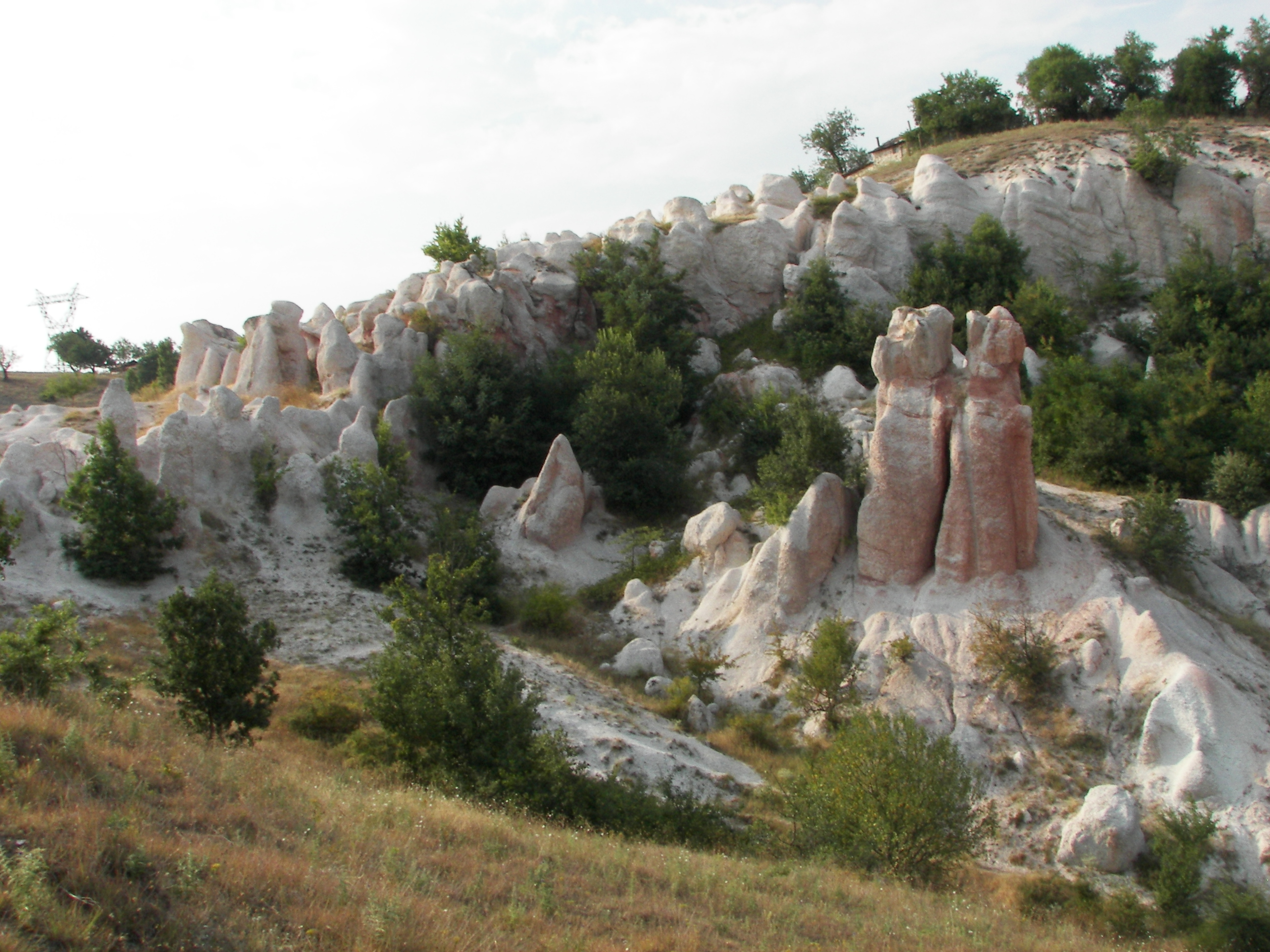 The natural phenomenon Kamenna svatba in Southeast Bulgaria near Kardzhali.